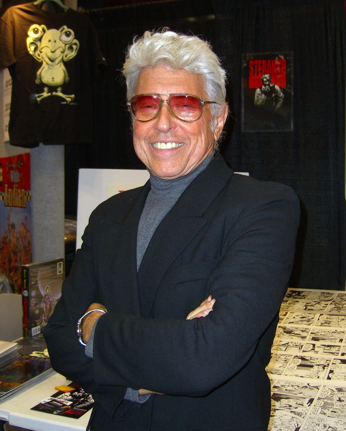 Comics creator Jim Steranko at the DC Comics booth on Day 2 of the 2012 New York Comic Con, Friday October 12, 2012 at the Jacob K. Javits Convention Center in Manhattan. This photo was created by Luigi Novi. It is not in the public domain, and use of this file outside of the licensing terms is a copyright violation.